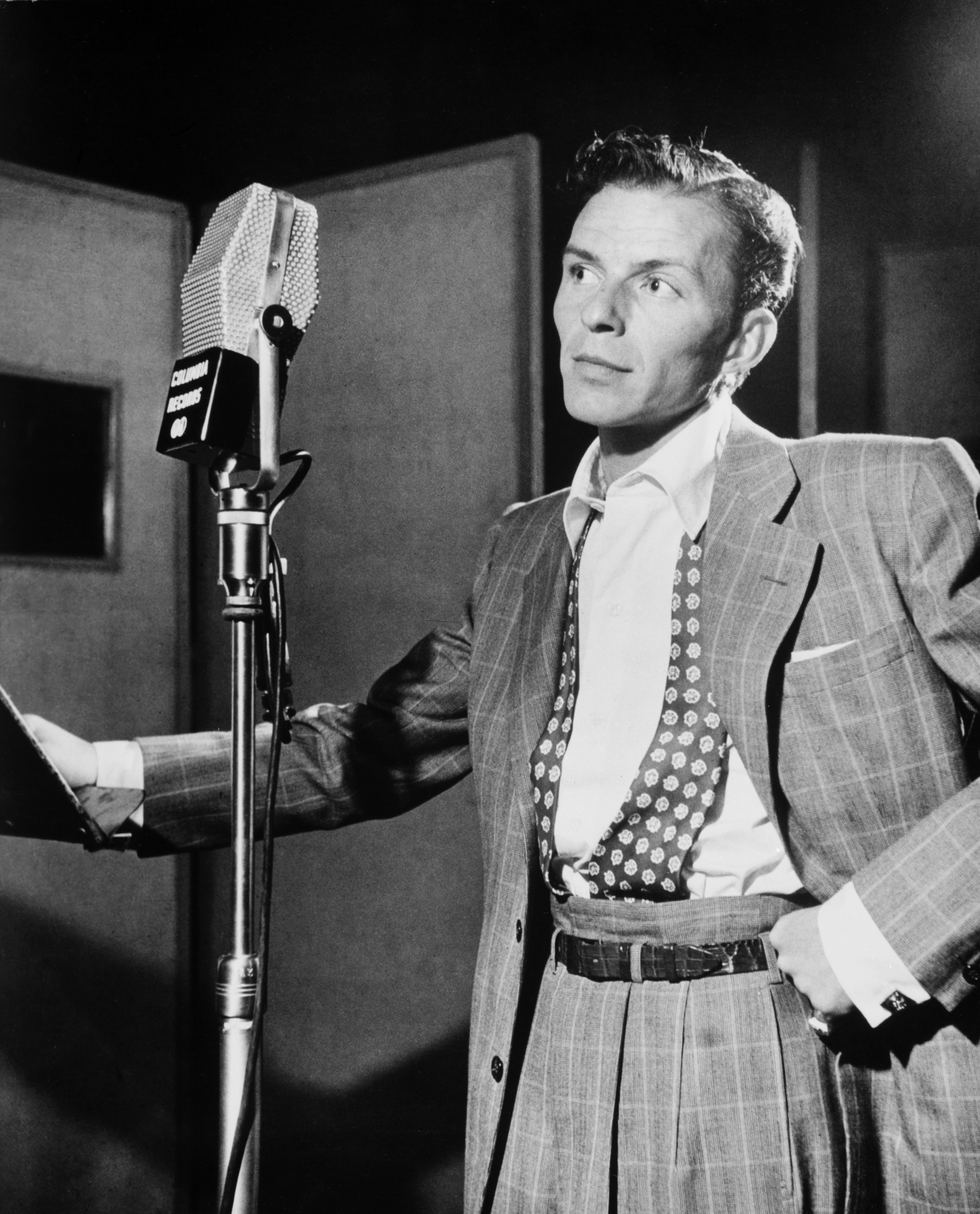 Portrait of Frank Sinatra at Liederkrantz Hall, New York.